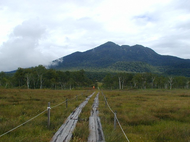 Mount Hiuchi in Fukushima, Japan